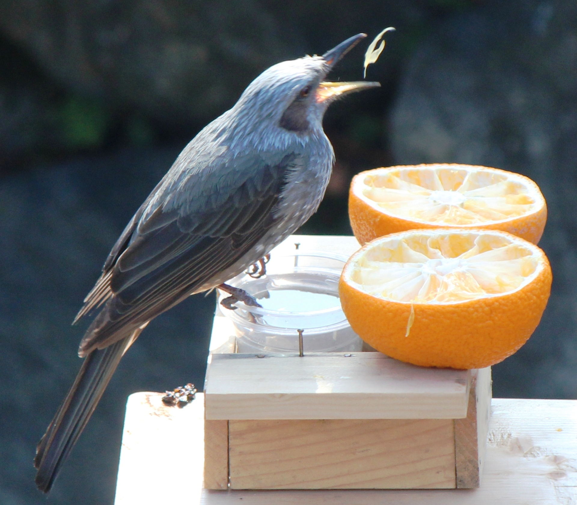 Microscelis amaurotis (Brown-eared Bulbul) eating orange on bird table, in Aichi prefecture, Japan.